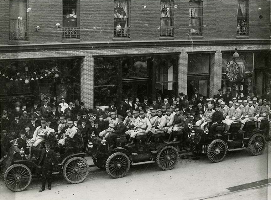 Repository: California Historical Society Collection: Dick Dobbins Collection on the Pacific Coast League 1866-1999, bulk 1902-1999. Date: 1903 Call Number: MSP 4031 Digital object ID: MSP 4031.019 Preferred Citation: Opening Day 1903, Oakland Commuters leaving the Statehouse Hotel for their first PCL game against Sacramento, Dick Dobbins Collection on the Pacific Coast League, courtesy, California Historical Society, MSP 4031.019 Online finding aid